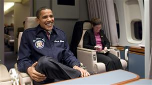 President Obama during his first flight as president on Air Force One with his AFO jacket. The picture have been shooted in the back on the plane (not "The White House" area)